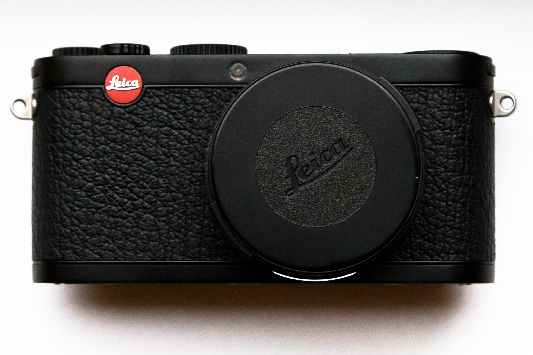 The front view of the Leixa X1